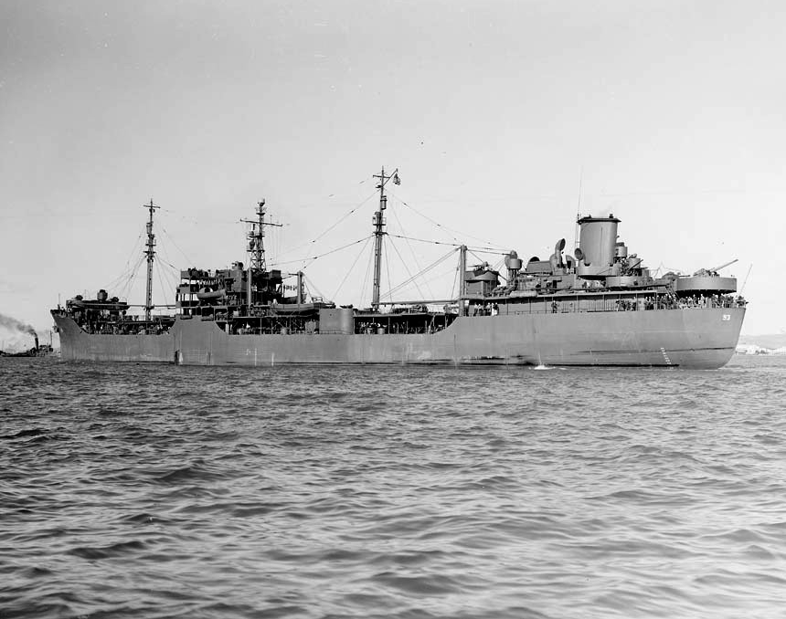 The U.S. Navy water tanker USS Soubarissen (AO-93), near San Francisco Naval Shipyard, Hunters Point, California (USA), on 20 January 1945.